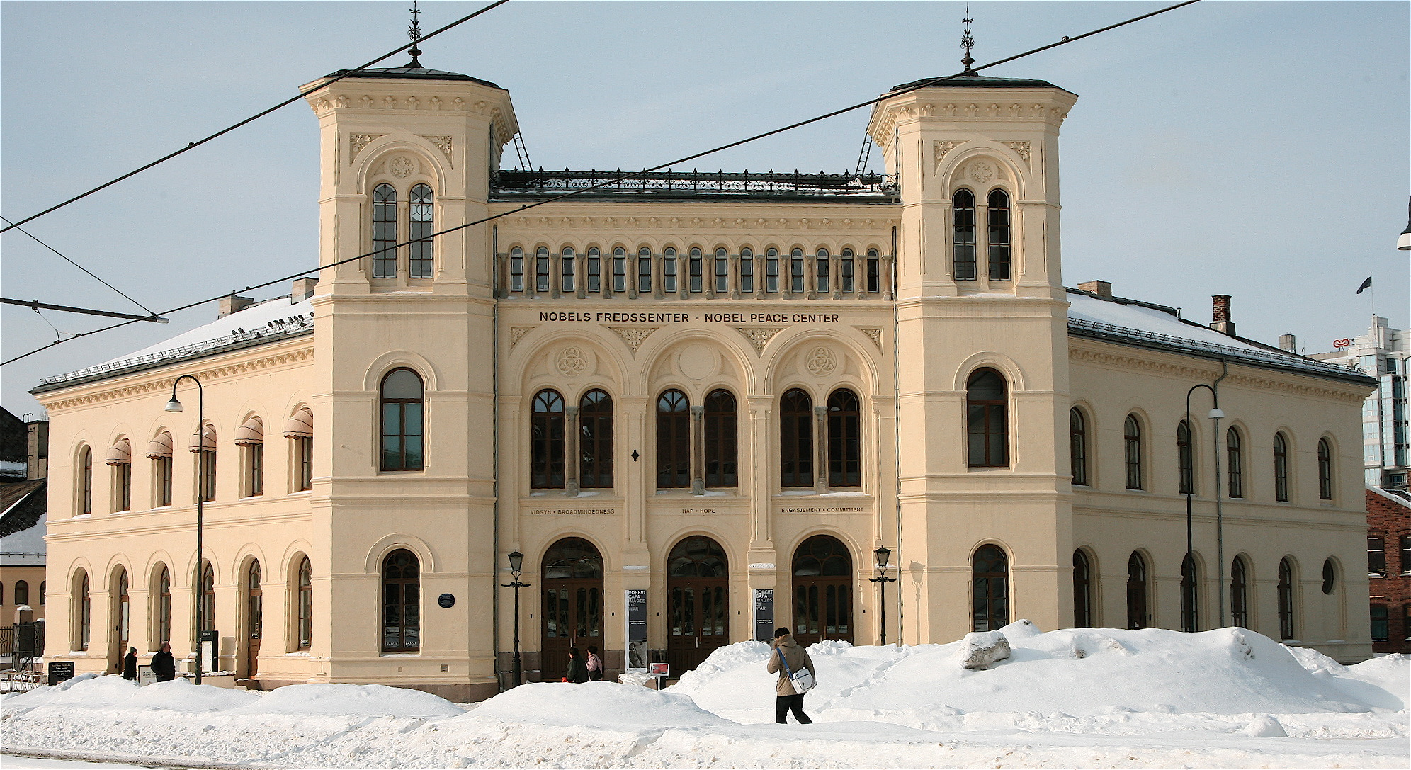 Vestbanen in Oslo, Architect Georg Andreas Bull, Photo: Nina Aldin Thune